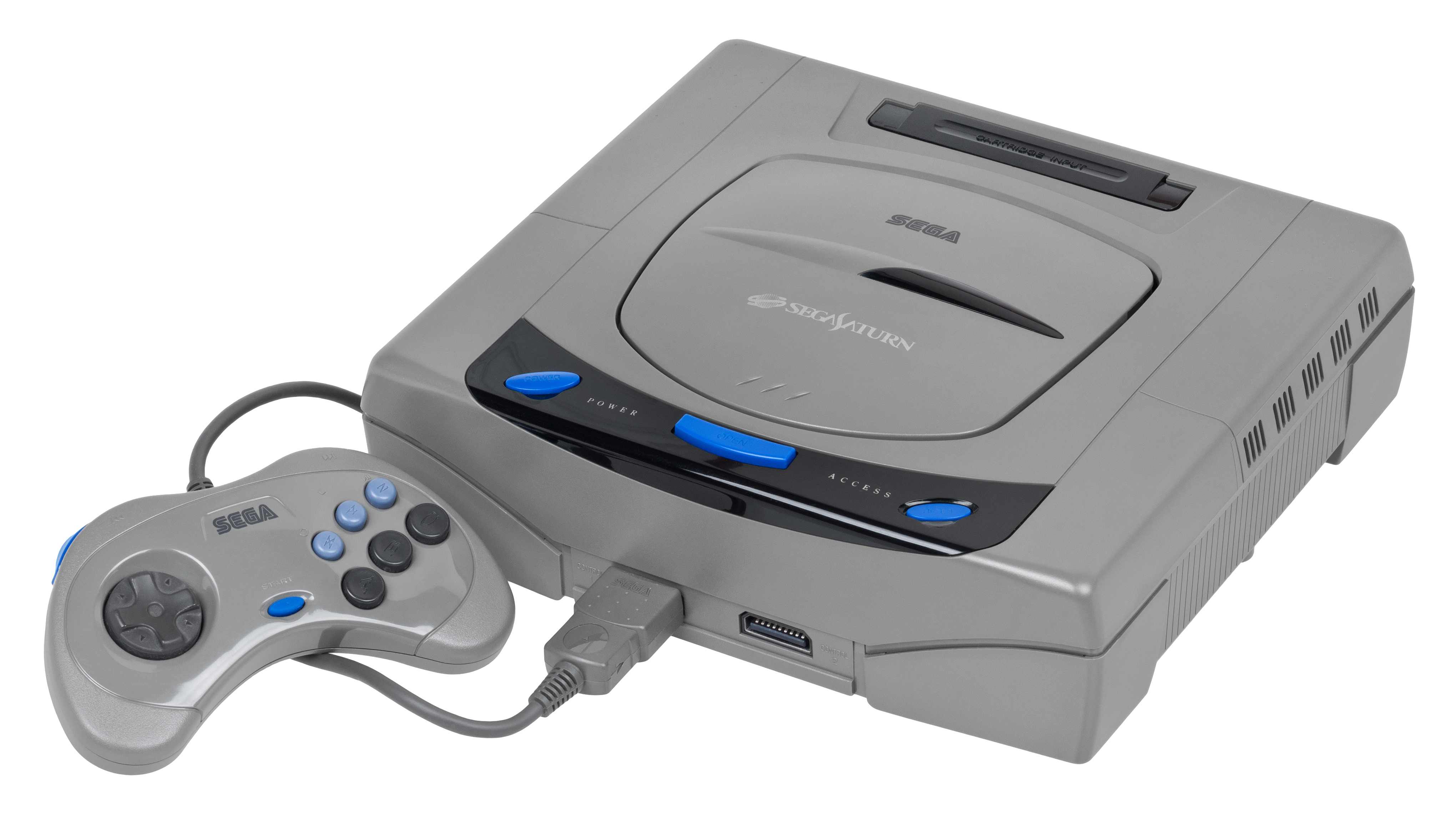 A first generation Japanese Sega Saturn console shown with controller. This is the "oval button" model that was gray. Later it was replaced by a "round button" white model.